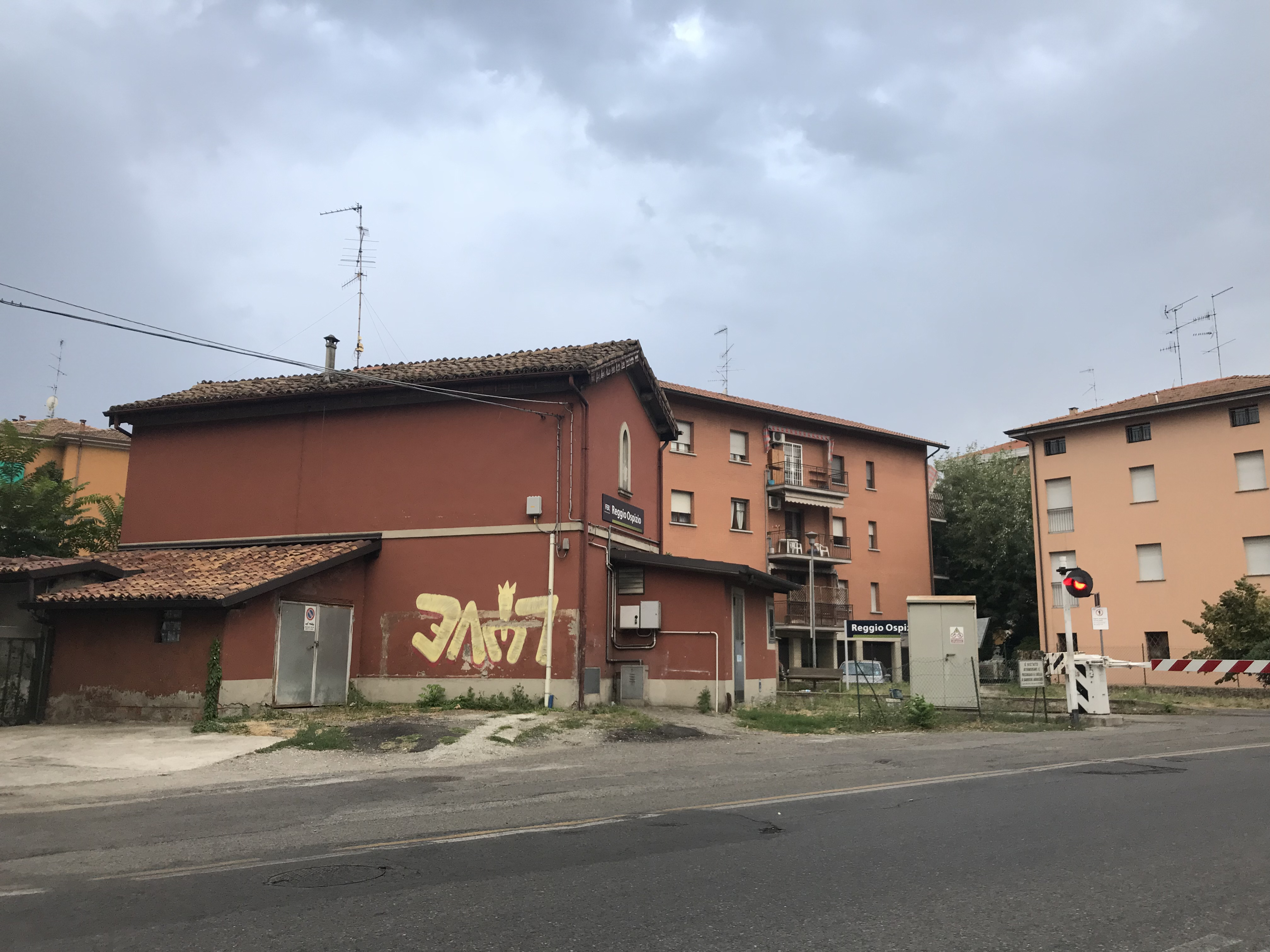 Reggio Emilia Ospizio train stop (rear view)